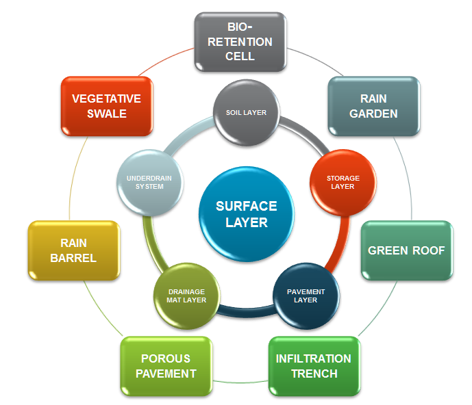 SWMM 5 LID Features in version 5.1